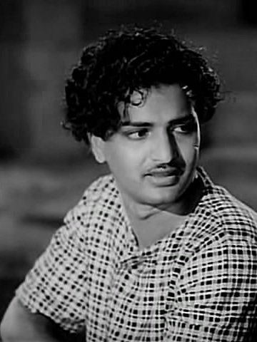 A still of Indian Telugu actor and filmmaker N. T. Rama Rao from Shavukaru (1950)